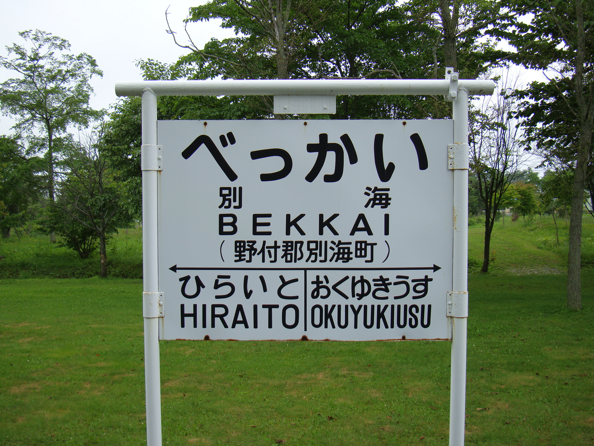 Bekkai Station Running in board on Bekkai railway Memorial park. Disused train stations on Shibetsu Line.